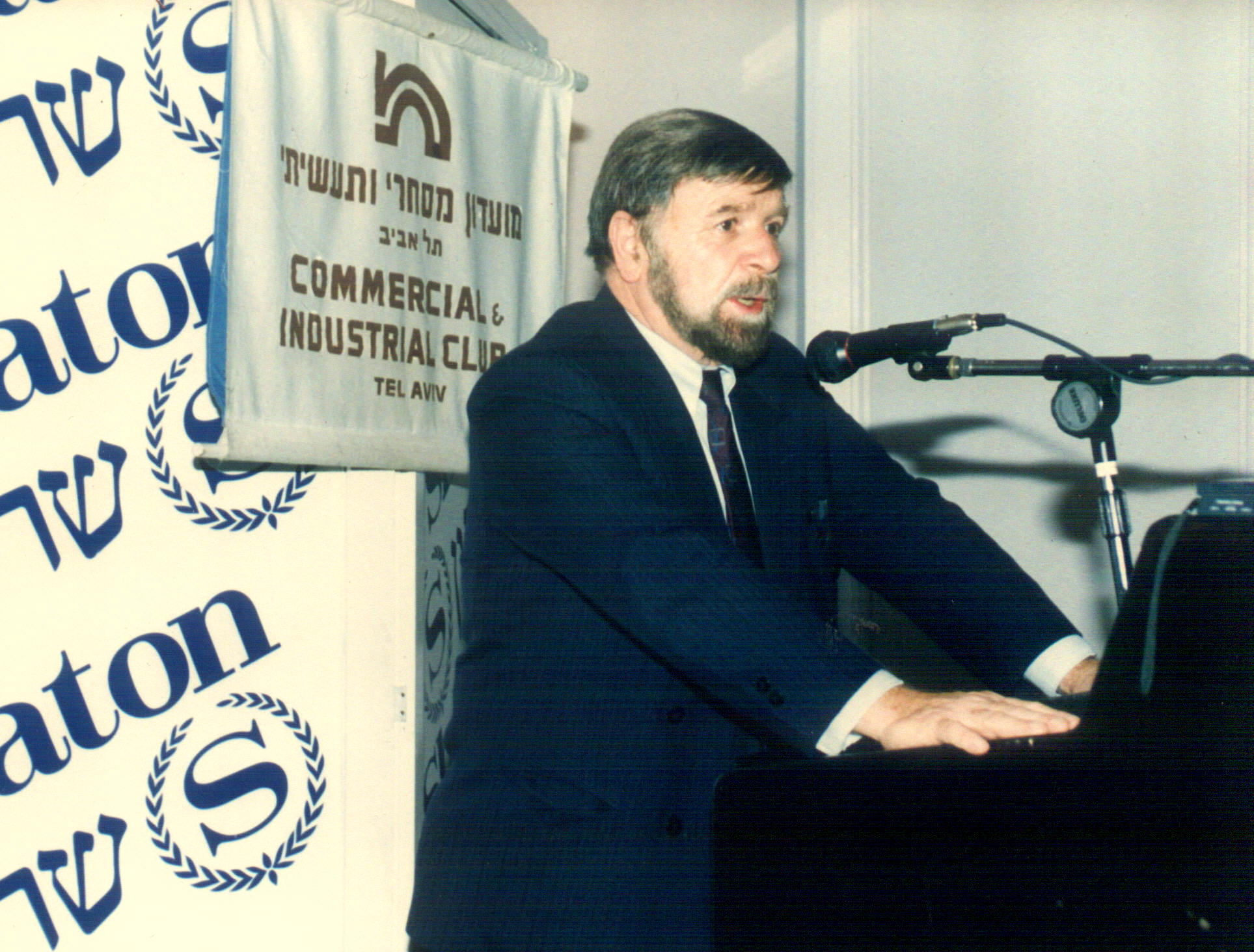 Ci-Club